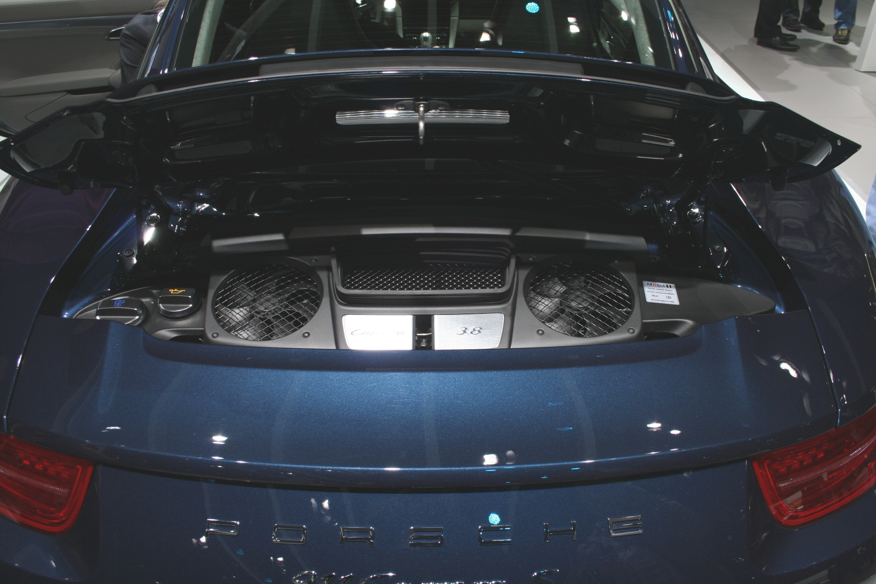 Motor compartment of Porsche 991 (911 Carrera S) at IAA 2011